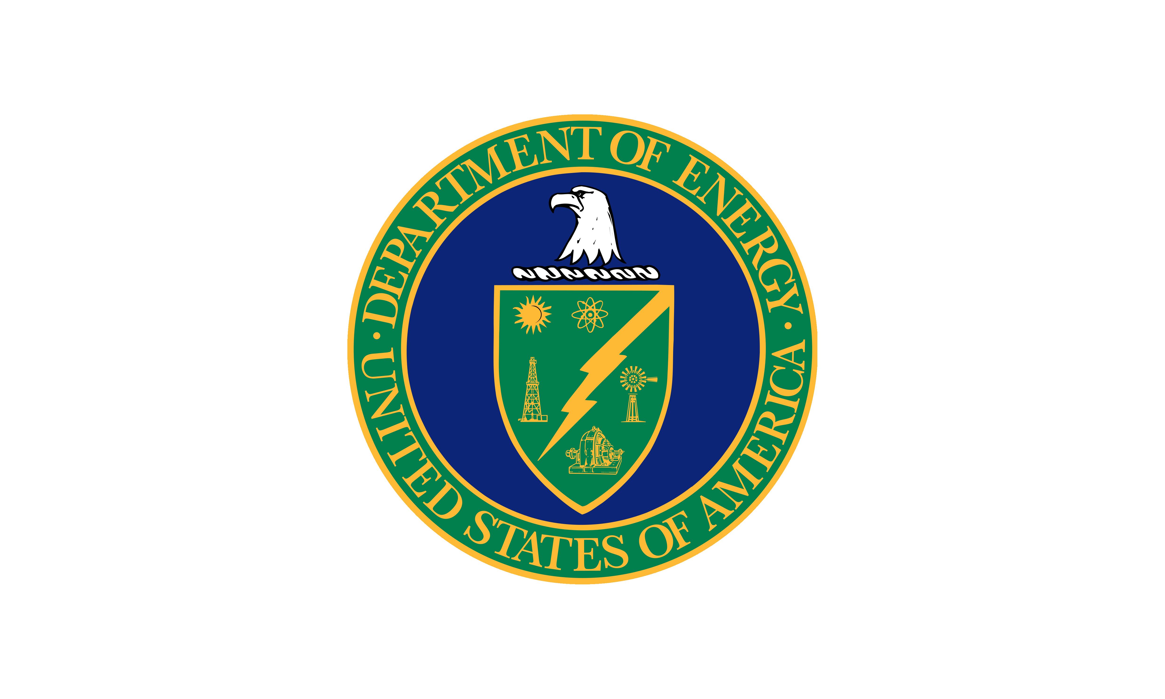 The flag of the United States Department of Energy (DOE).